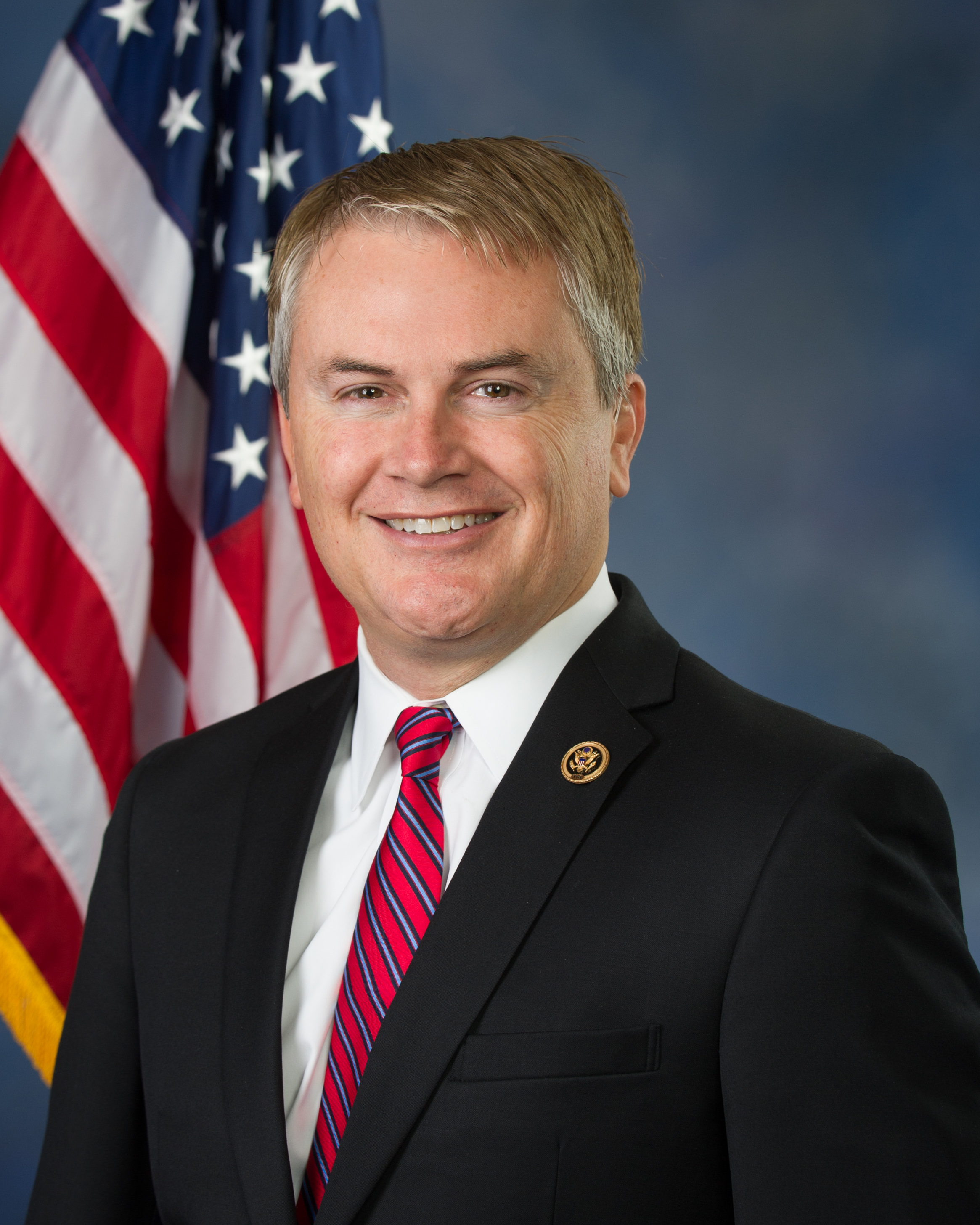 James Comer congressional photo, 2016